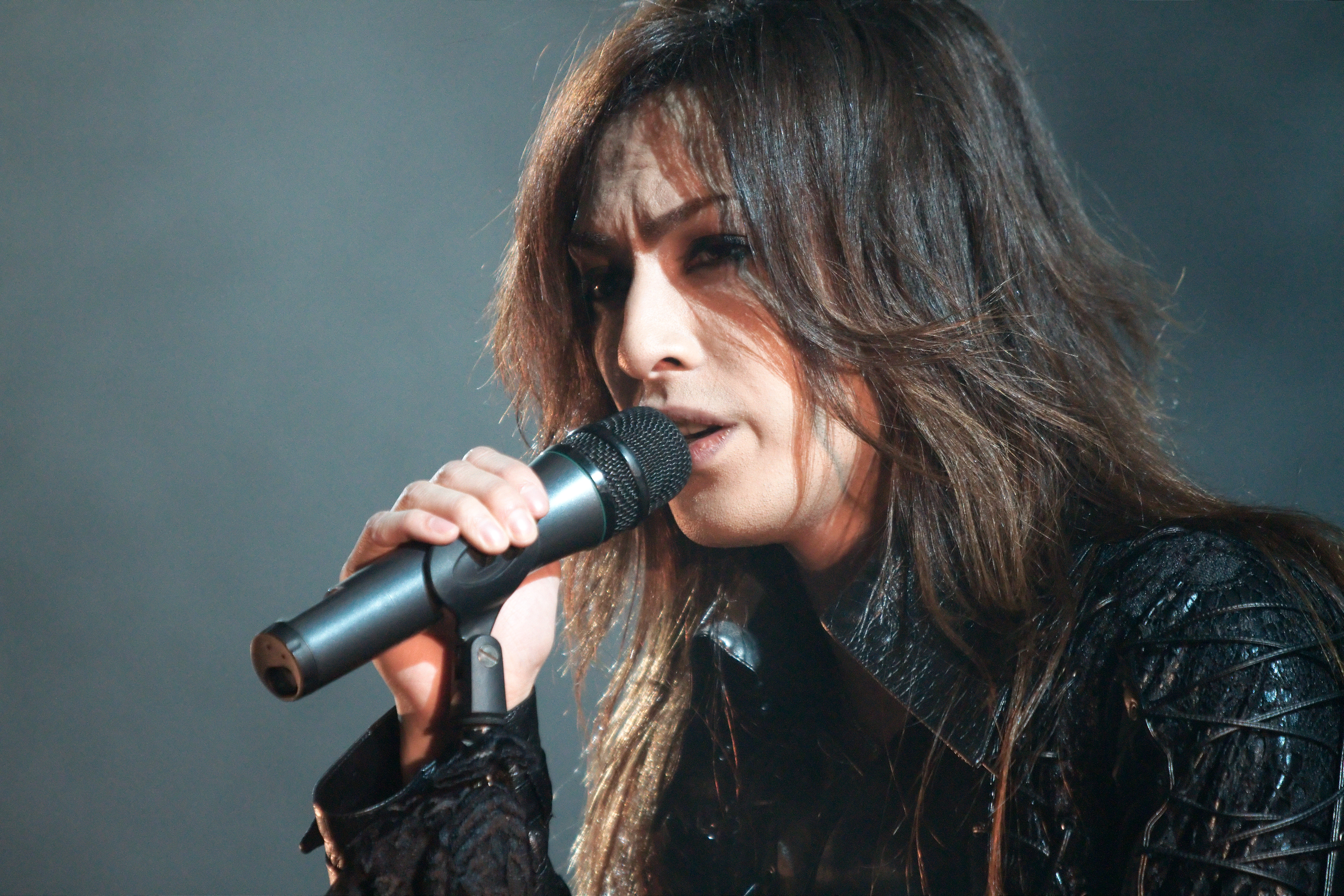 Aoi live at Japan Expo Sud 2010 (Marseille, France).